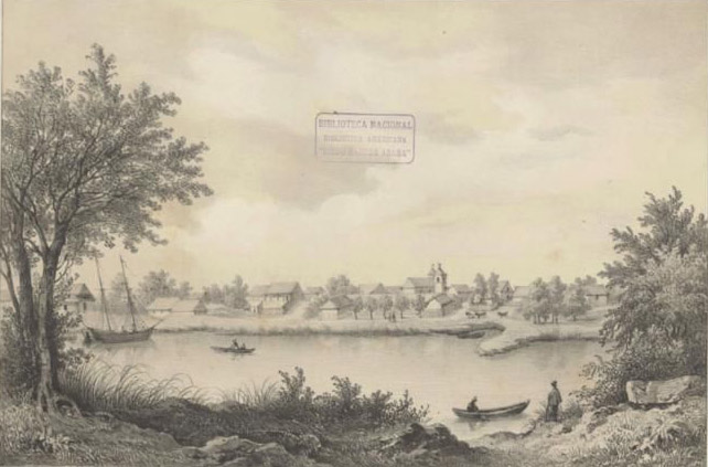 Painting the City Center of Valdivia year 1836, from Isla Teja, Claudio Gay